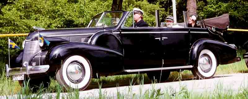 Cadillac Series 75 Convertible Sedan 1939